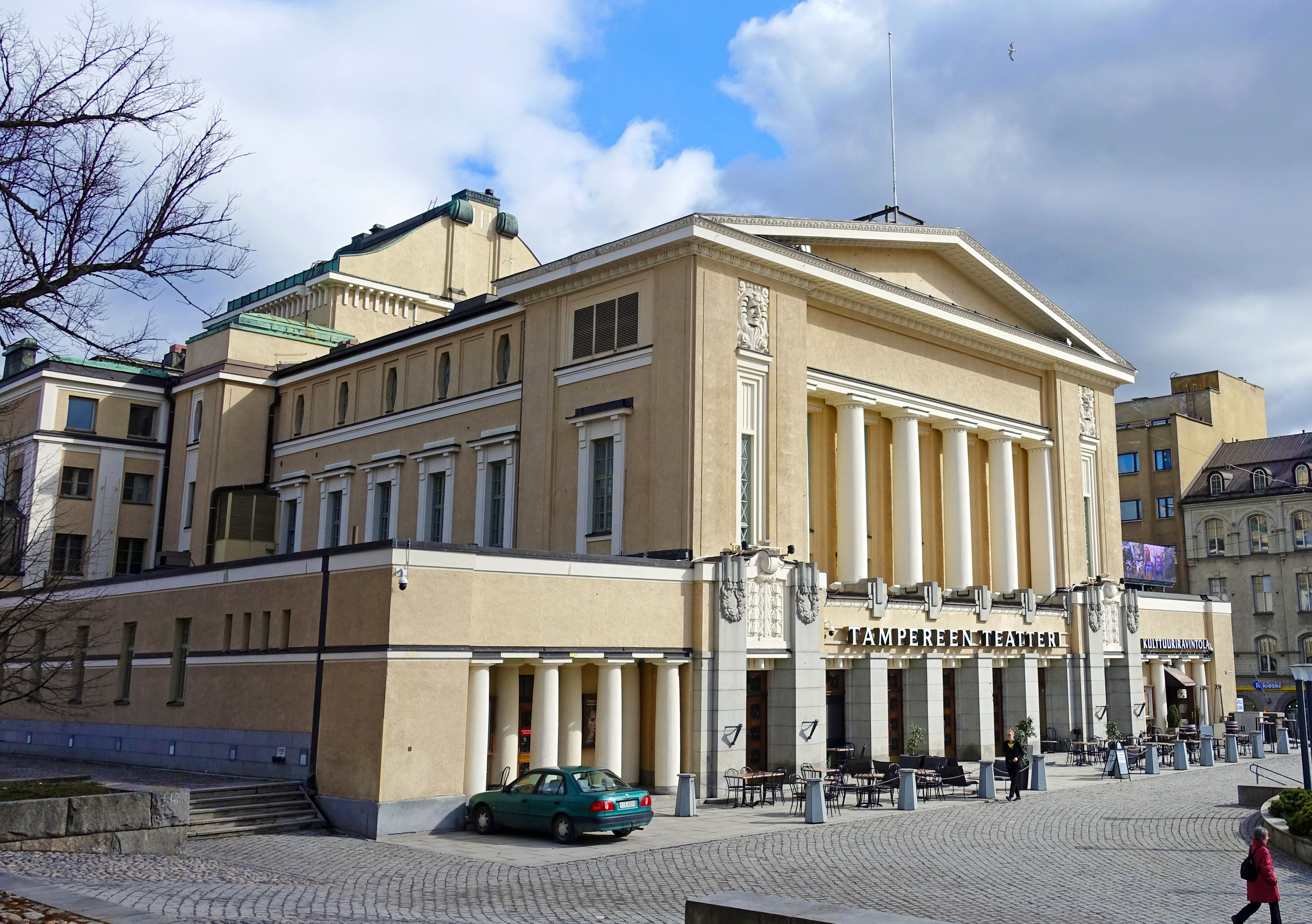 Tampere Theatre.